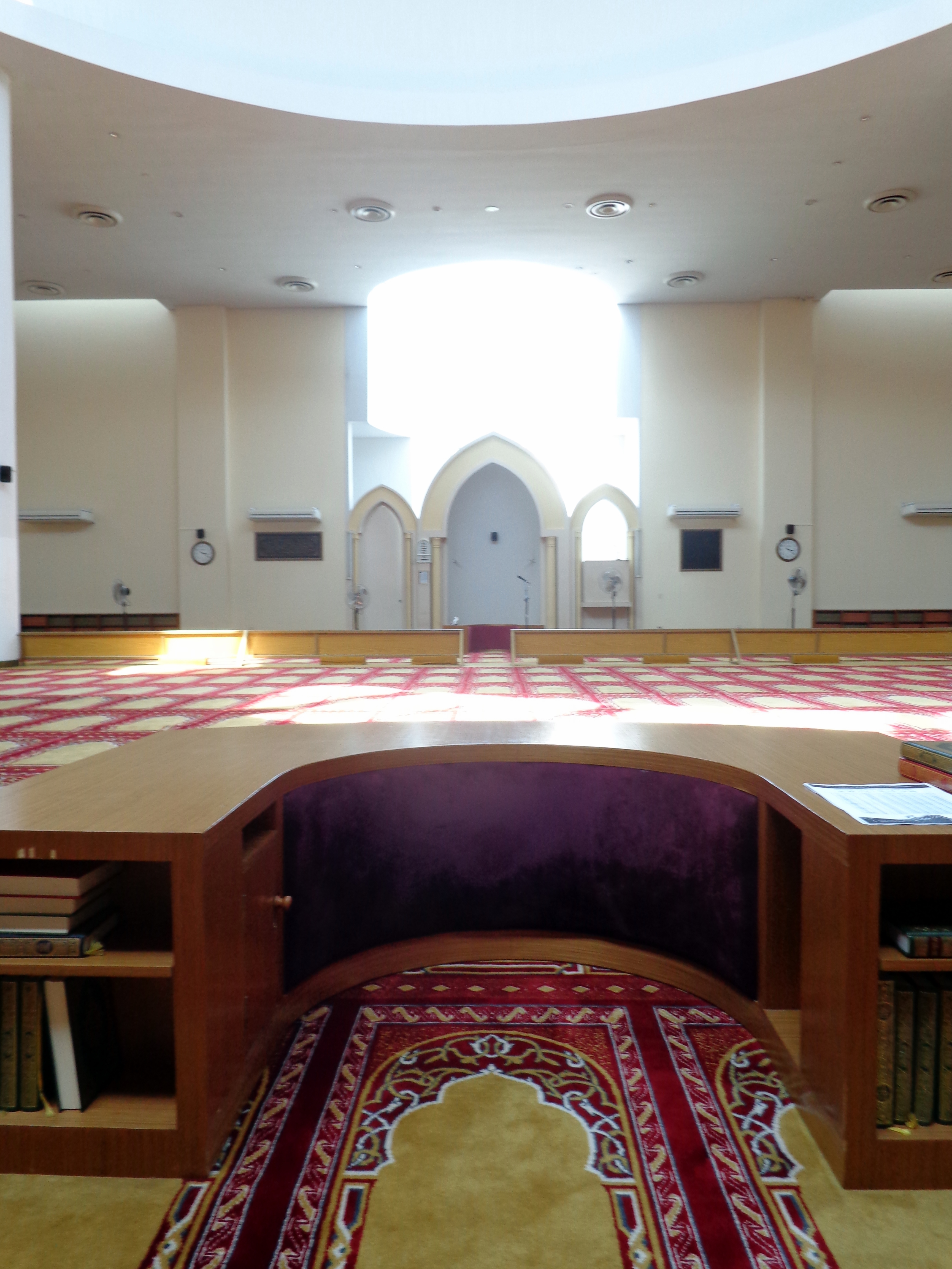 Mosque "Centro Cultural Islámico Custodio de las Dos Sagradas Mezquitas Rey Fahd en Argentina", in Intendente Bullrich 55, Buenos Aires.